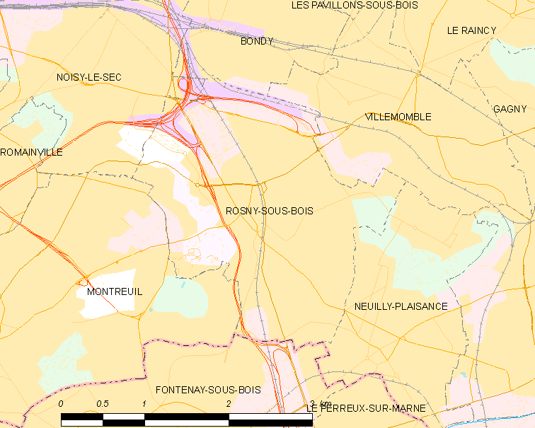 Map of French municipality Rosny-sous-Bois